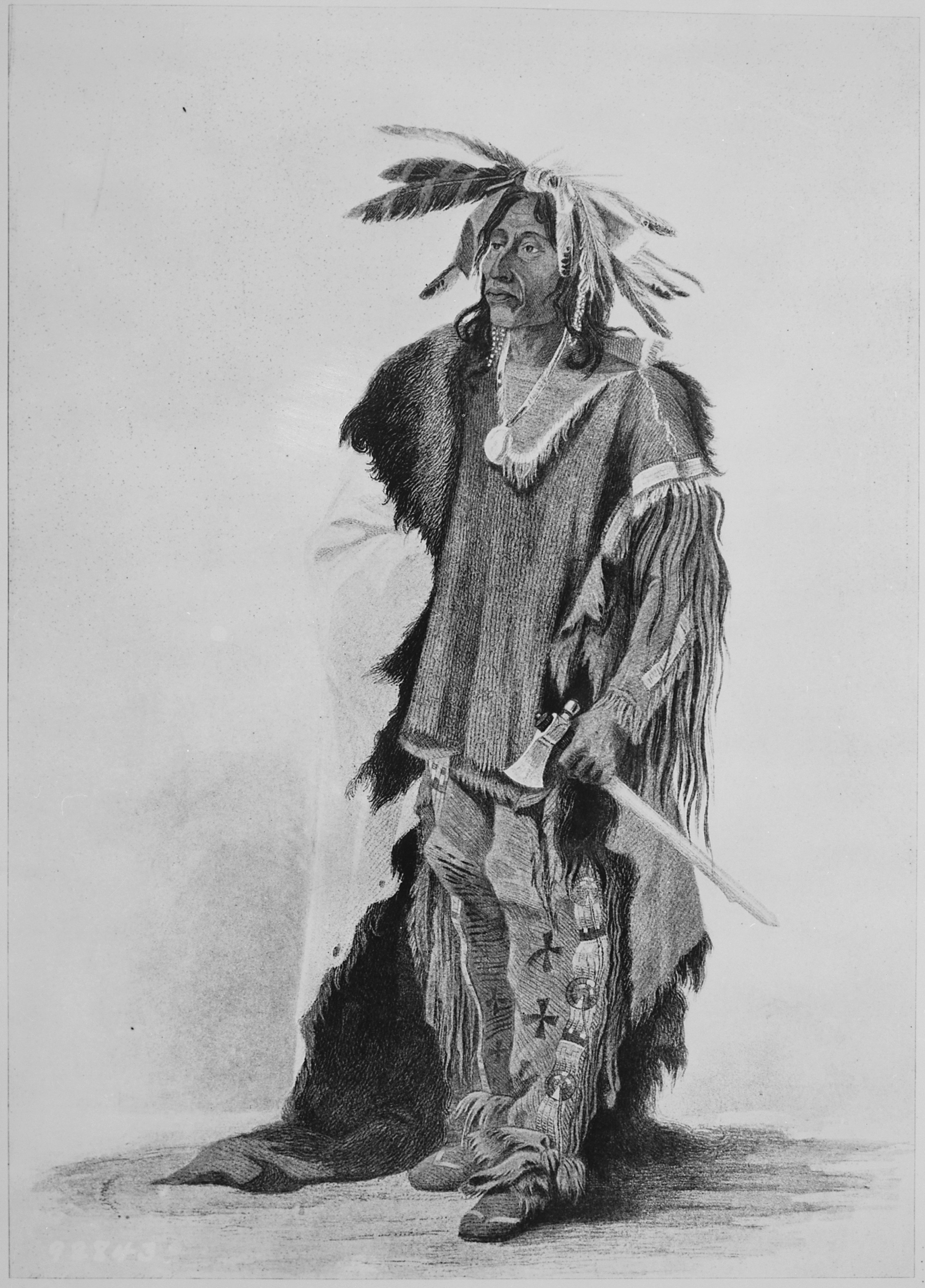 General notes: Artwork